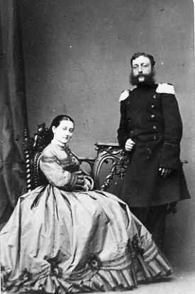 Princess Maria Maximiliovna of Leuchtenberg and Prince Wilhelm of Baden